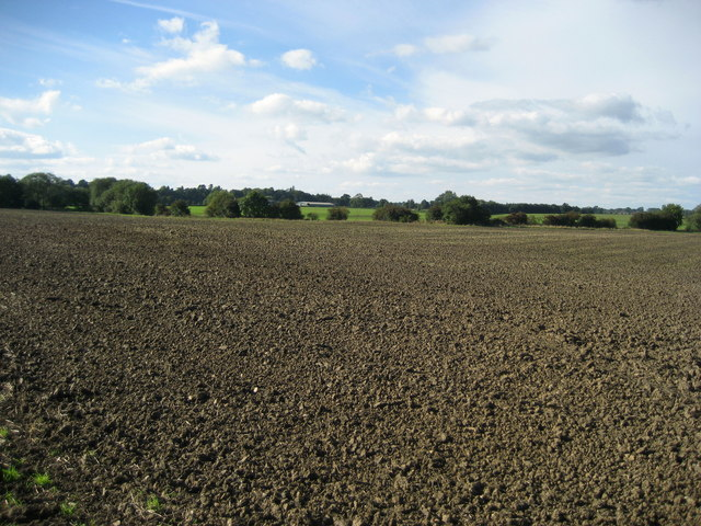 Looking over fields towards Firby. Countryside looking north west from near Hollins House